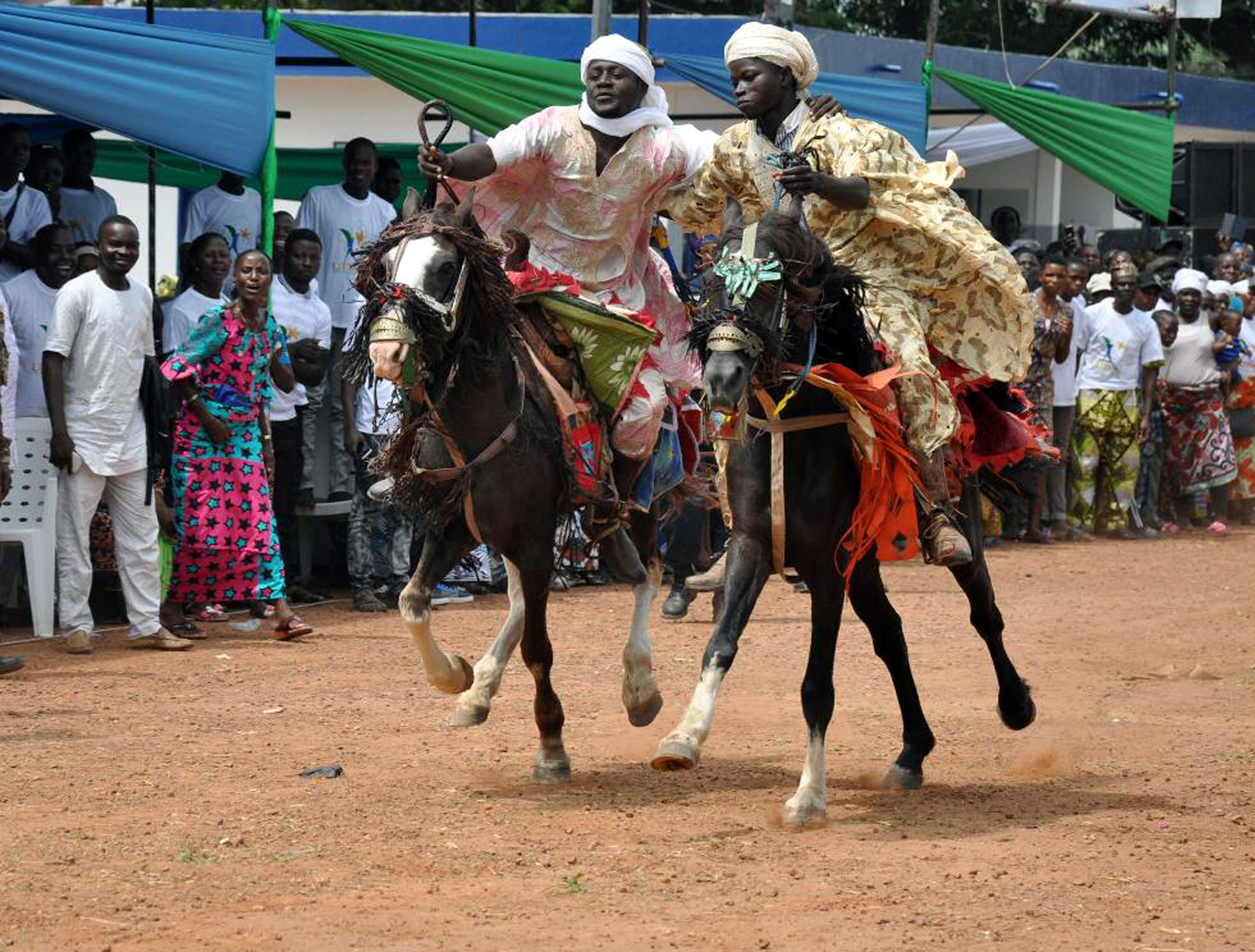 in Nikki the city of horses is organized every year the Ganni This is an image with the theme "Africa on the Move or Transport" from: Benin